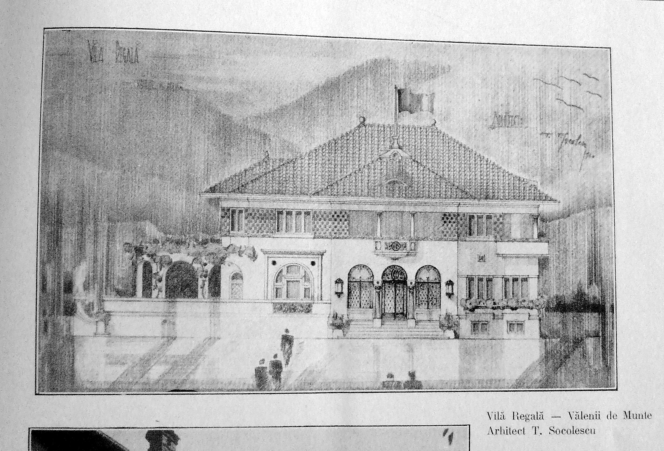 Project of Toma T. Socolescu: Royal house of Vălenii de Munte (județ de Prahova). The picture was taken in 1930. We are the only heirs and descendants of Toma T. Socolescu (died in 1960 in Bucharest) and therefore owner of all his intellectual rights.